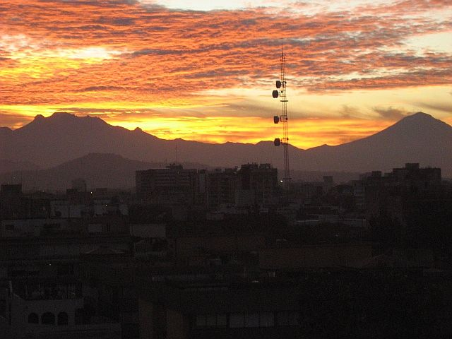 Mexican volcanoes; Popocatepetl and Ixtlacihuatl, 2010.